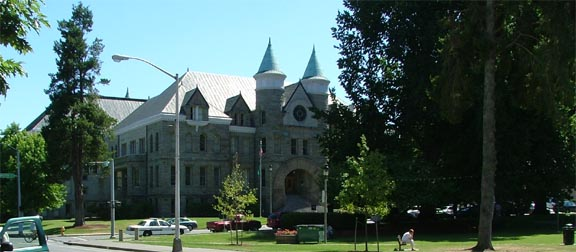 The old courthouse and Sylvester Park, Olympia, WA. Both the building and the park are on the National Register of Historic Places.